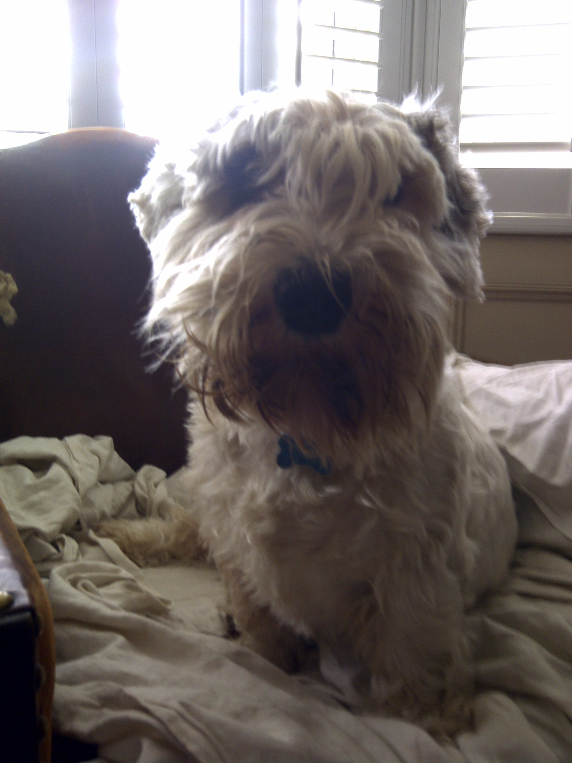 A picture of Ivor the Sealyham Terrier at his home look-out-point. More photos of Ivor are on